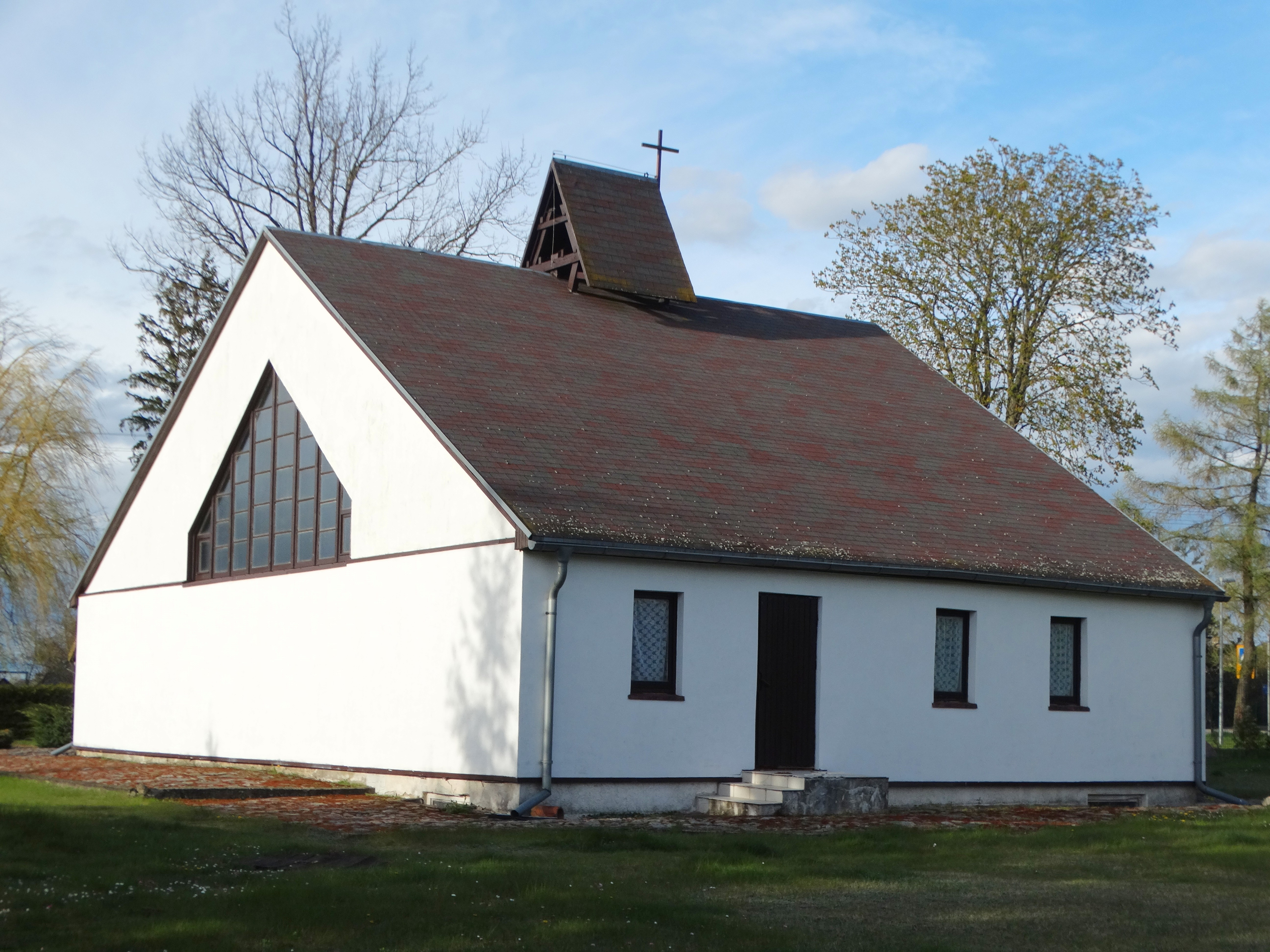 Emmaus Lutheran Church, Sudargas, Šakiai district, Lithuania